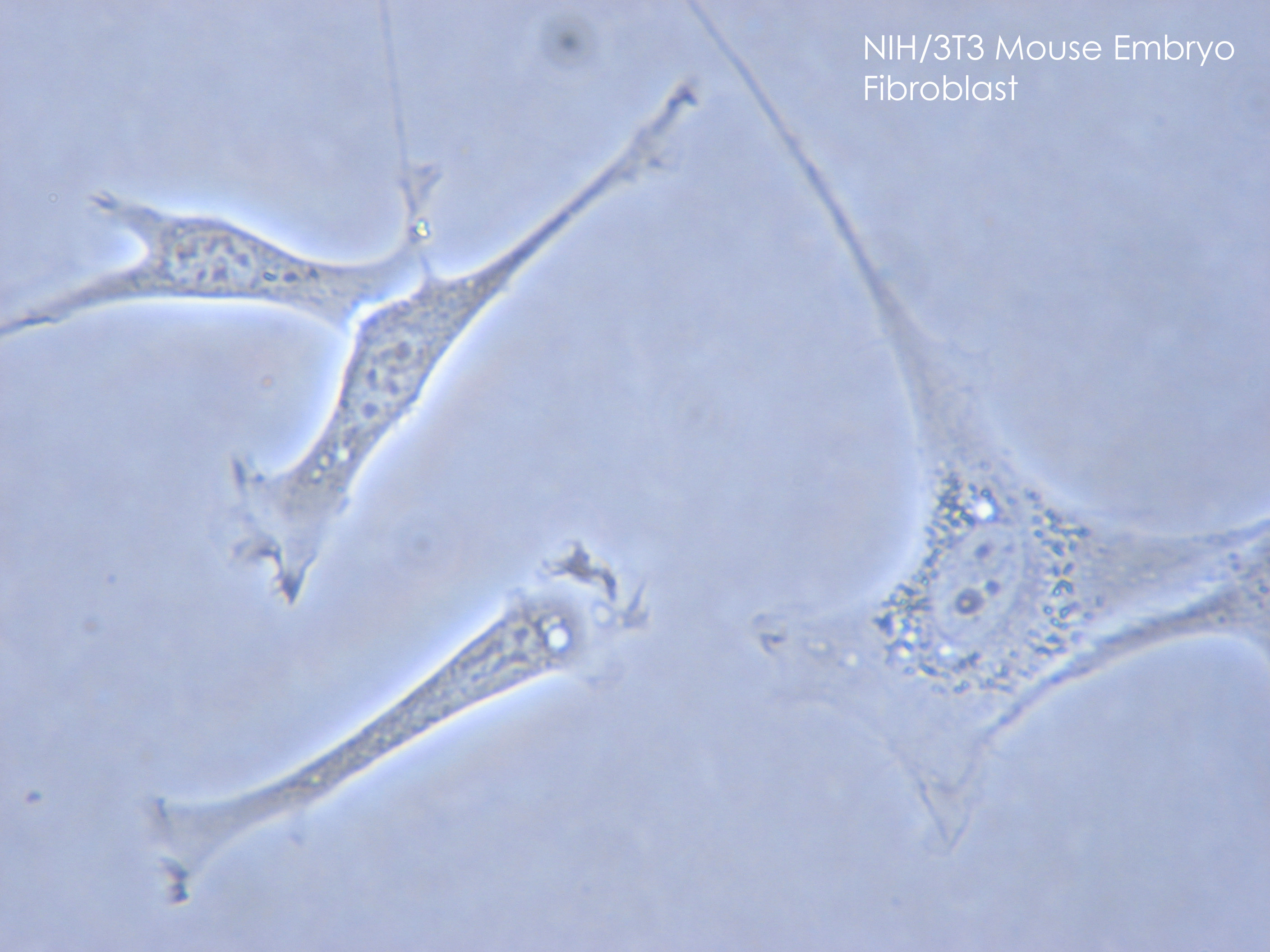 Image taken with Canon Powershot S3 on Nikon TS100 inverted microscope by the author using phase contrast microscopy.